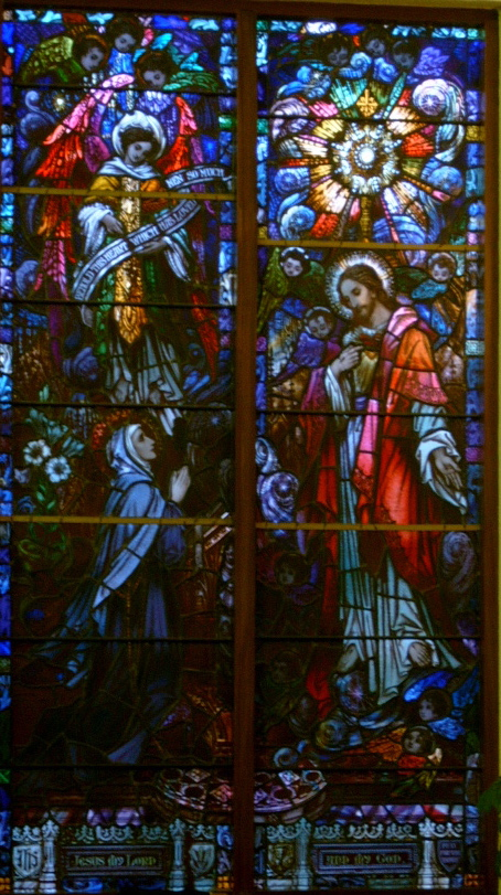 My photograph of a church window in St. Ultan's Church, Bohermeen in Ireland.